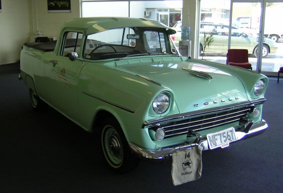 1960–1961 Holden FB utility.